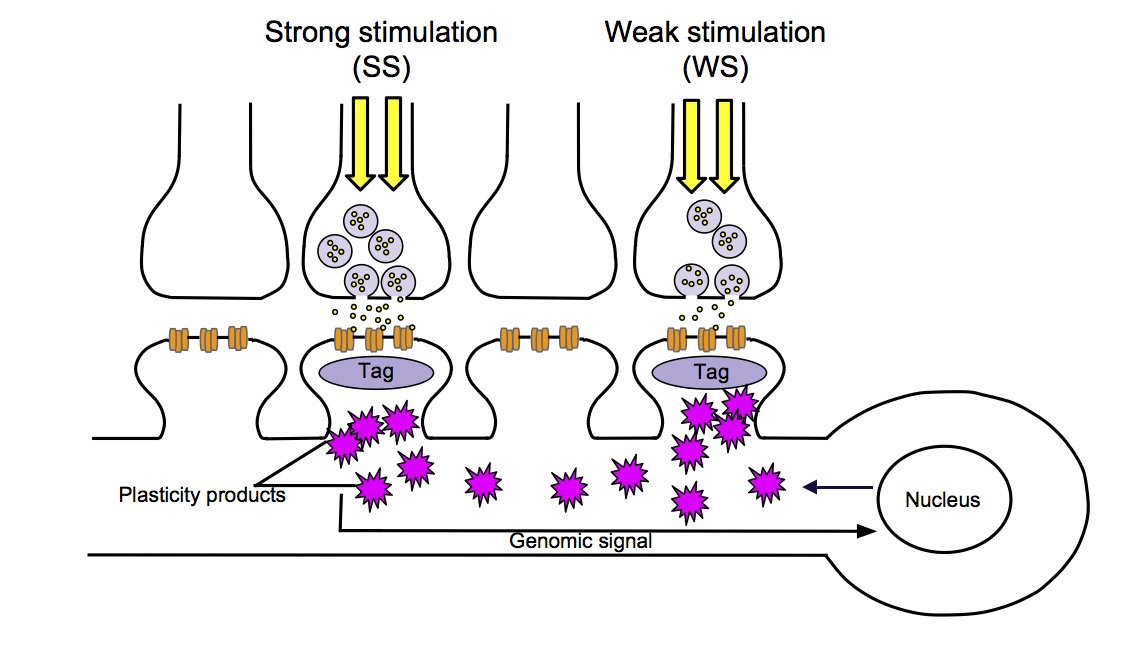 A strong stimulus has the ability to produce a tag while also generating a genomic signaling cascade leading to plasticity product formation. This tag will help capture the plasticity product. A weak signal cannot product a genomic signal, however, it can create a tag and capture plasticity products.